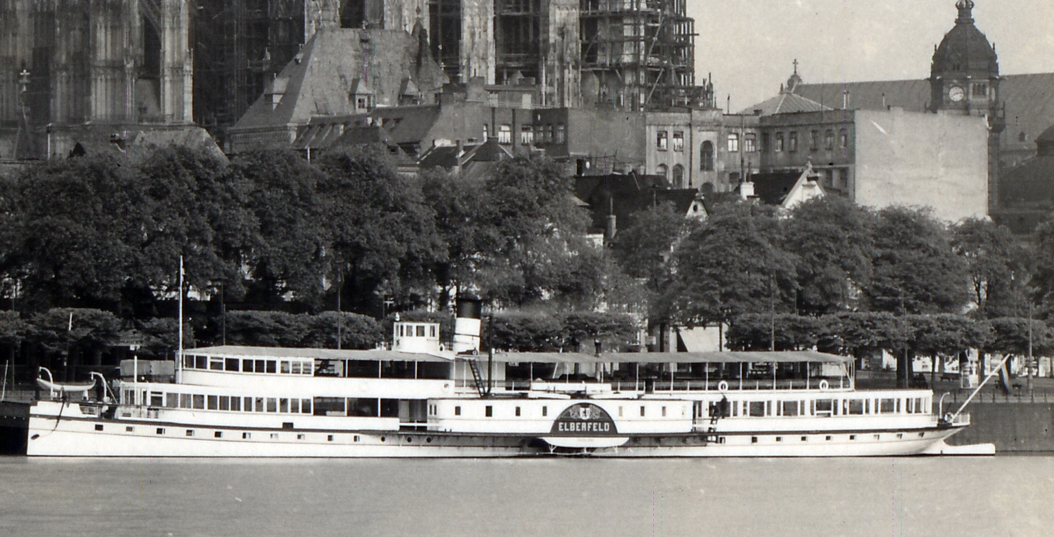 Paddle steamer Elberfeld in Cologne